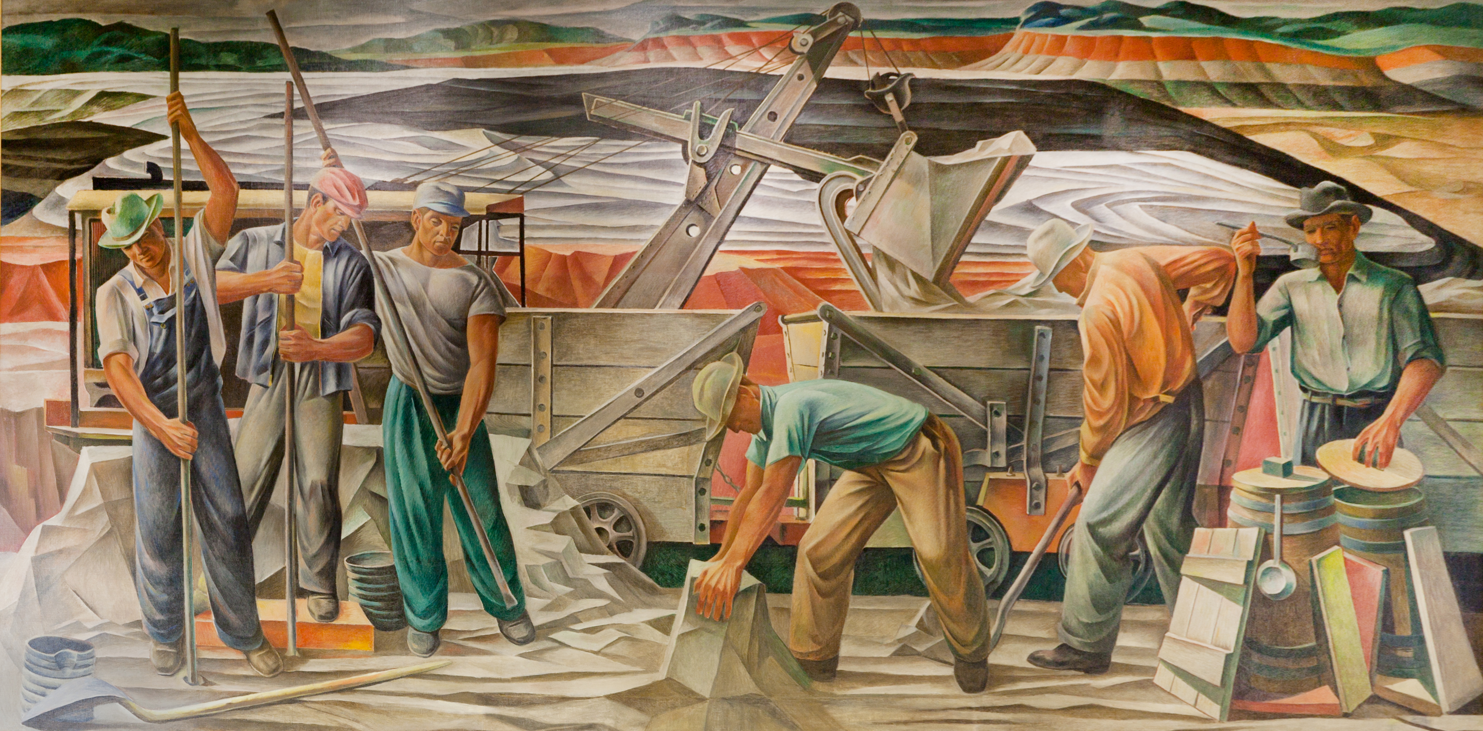 Photograph of mural "The Bauxite Mines" (1942) by Julius Woeltz, located in the Saline County Courthouse in Benton, Arkansas; originally installed in the U.S. Post Office in Benton, ArkansasNotes: Date: 1942; dimensions: 73" x 143 1/4"; medium: oil. Photographed as part of an assignment for the General Services Administration. Title, date and keywords from information provided by the photographer. Credit line: Photographs in the Carol M. Highsmith Archive, Library of Congress, Prints and Photographs Division. Gift; Carol M. Highsmith; 2009; (DLC/PP-2009:083). Forms part of: Photographs in the Carol M. Highsmith Archive. More information at The Living New Deal